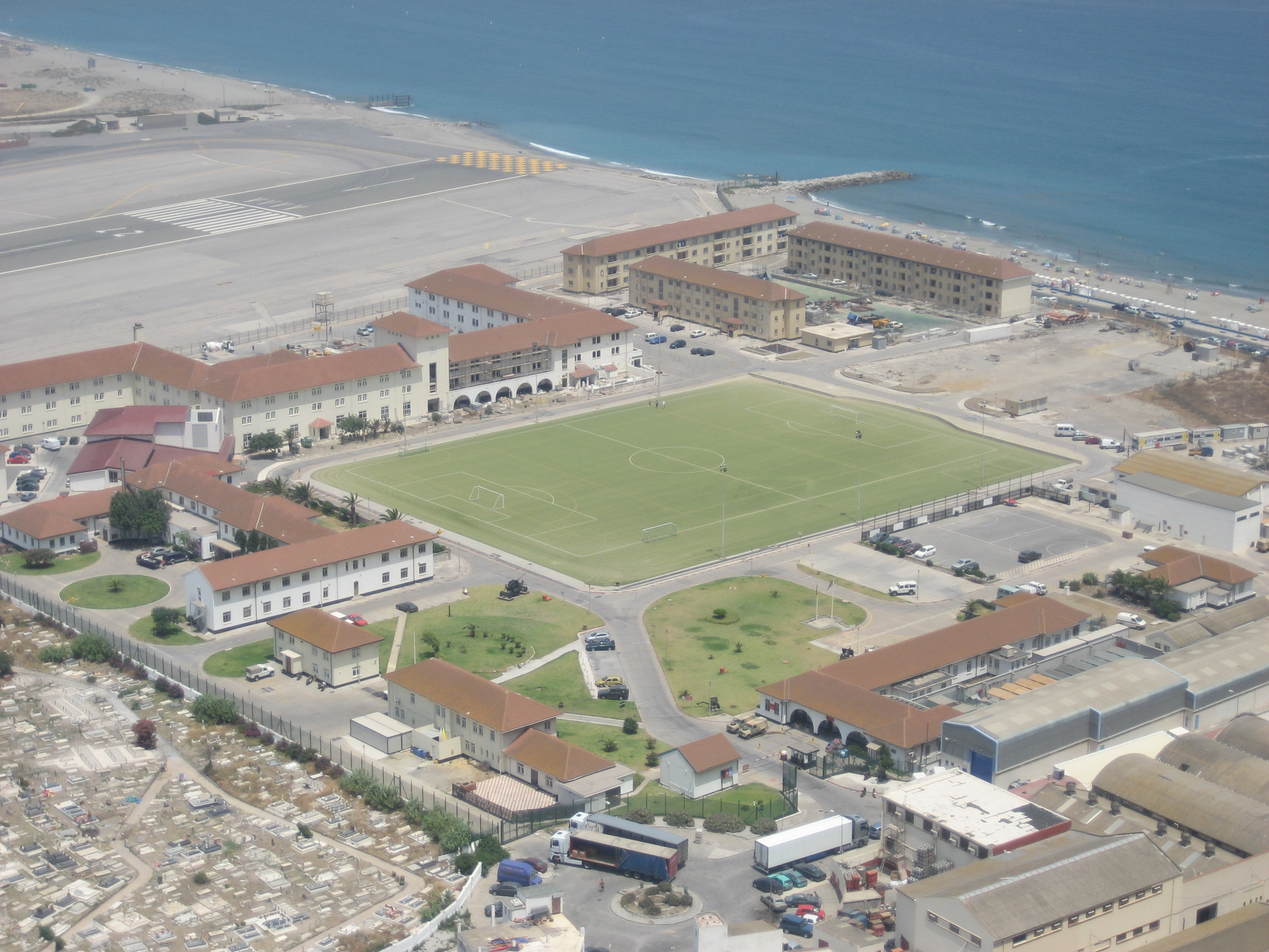 Devils Tower Camp, Gibraltar